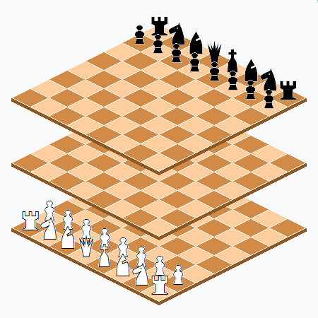 Millennium 3D Chess init config; using icons from Chess Utrecht (Hans Bodlaender); done in MSPAINT.